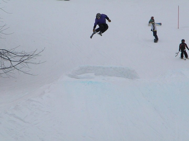 Skier catching "big air" off one of the jumps at Mulligan's Hollow Ski Bowl, Winter 2010/2011.